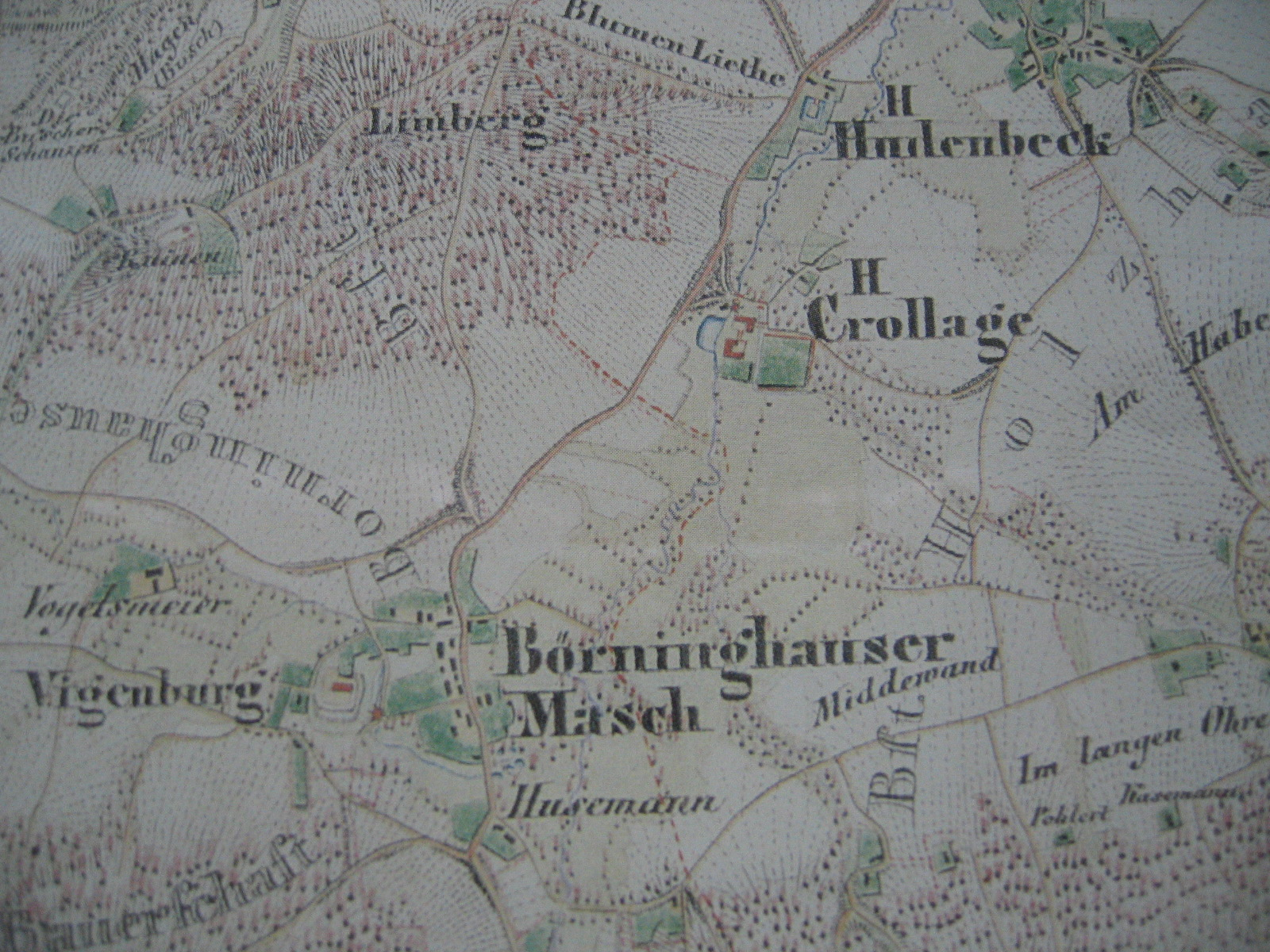 Part of a map showing Börninghausen and Crollage Castle, etc., that is today in Preußisch Oldendorf, District of Minden-Lübbecke, North Rhine-Westphalia, Germany and was back then in Prussian, Province of Westphalia.